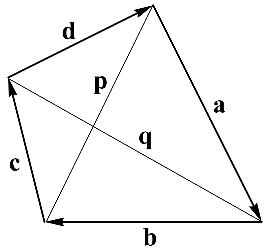 Illustration to Bretschnider theorem